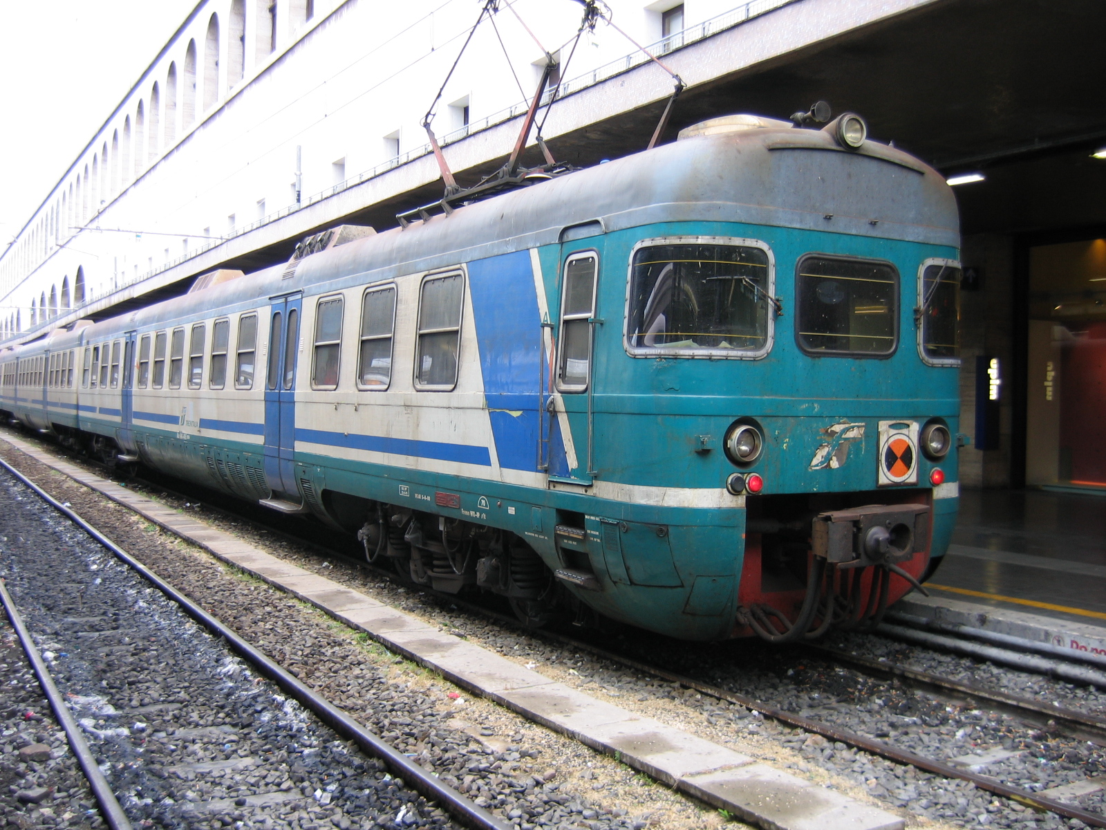 ALe940.085 in Roma Termini train station. Author: Jollyroger. 2 june 2006. Part of convoy with ALe801-062